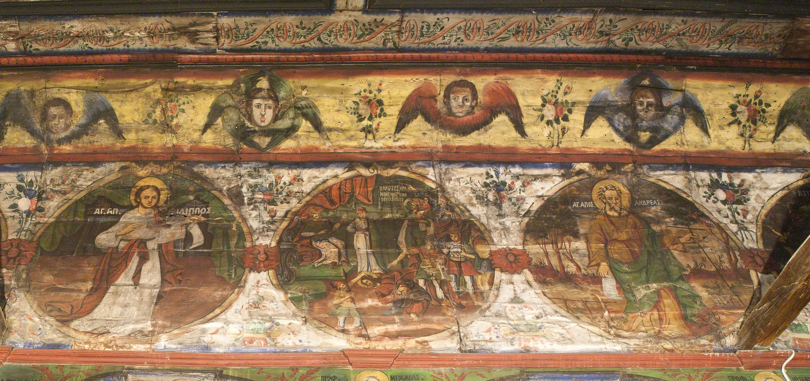 Agiou Georgiou Kilkis